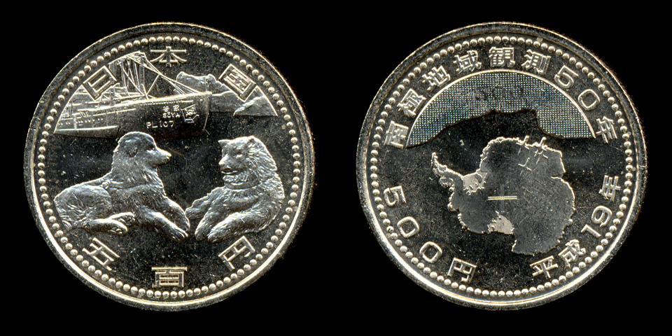 Nankyokuchiiki-kansoku-50nen